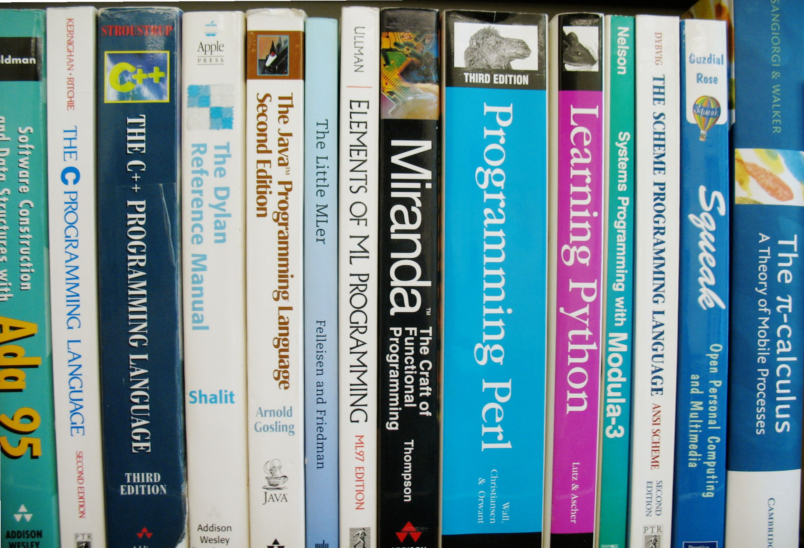 A selection of programming language textbooks on a shelf. Levels and colors adjusted in the GIMP.